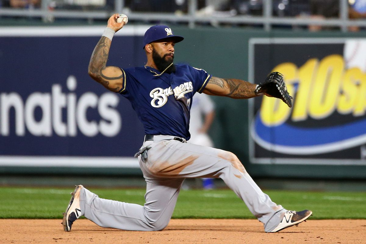 brewers